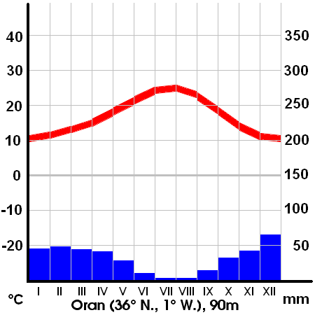 Climate diagram (in German) of Oran in Algeria created with